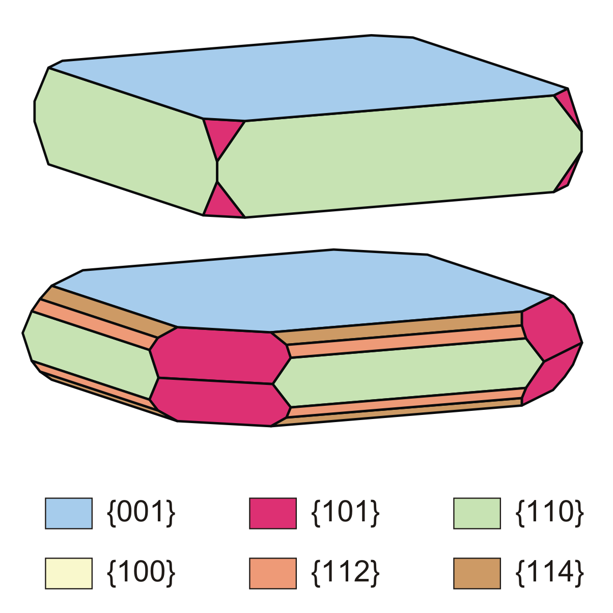 Drawing of tabular apophyllite crystals; reference: P. Ramdohr & H. Strunz (1978), Klockmann's Lehrbuch der Mineralogie, page 740